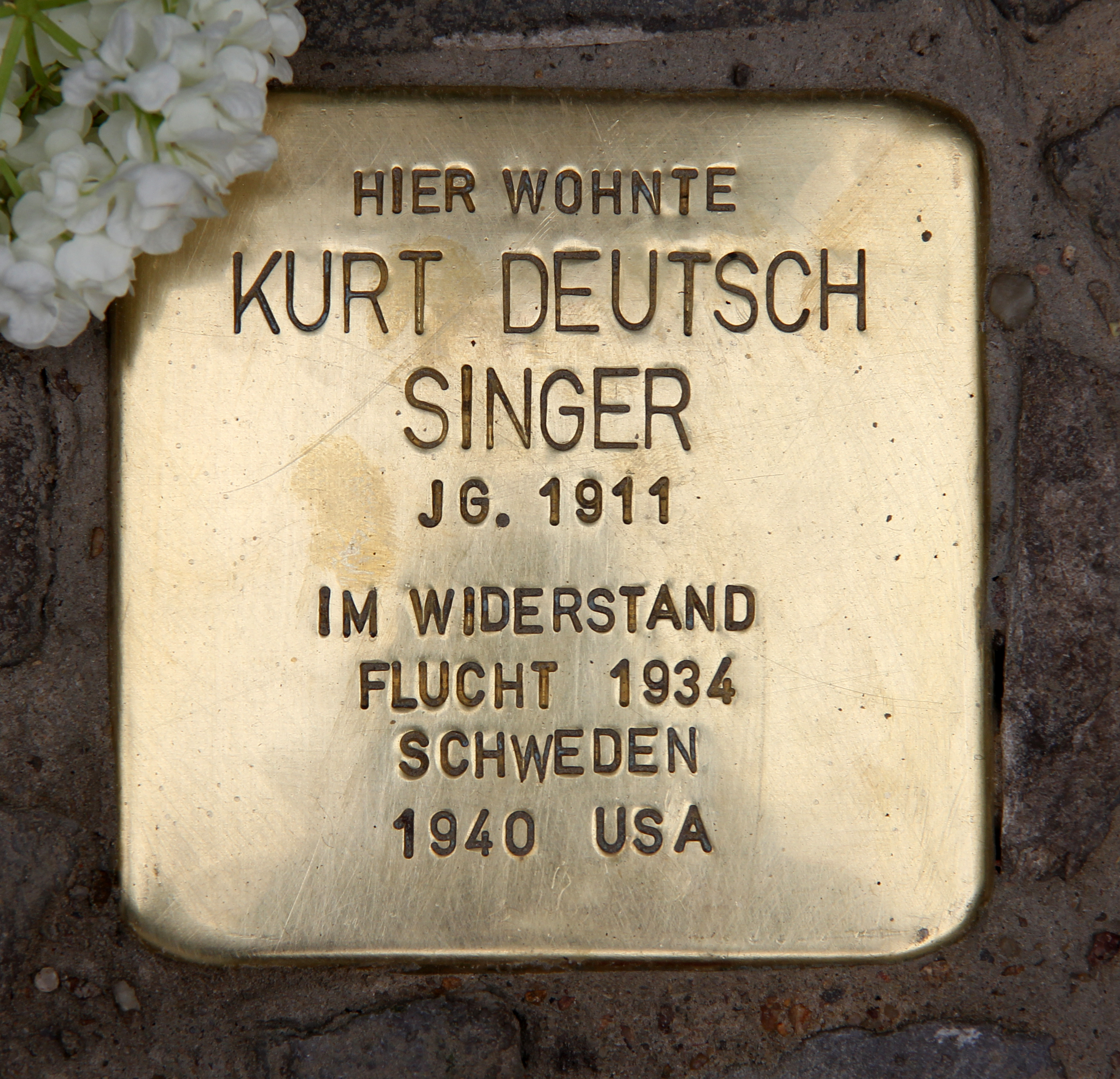 "Stolperstein" (stumbling block), Kurt Deutsch Singer, Jenaer Straße 9, Berlin-Wilmersdorf, Germany